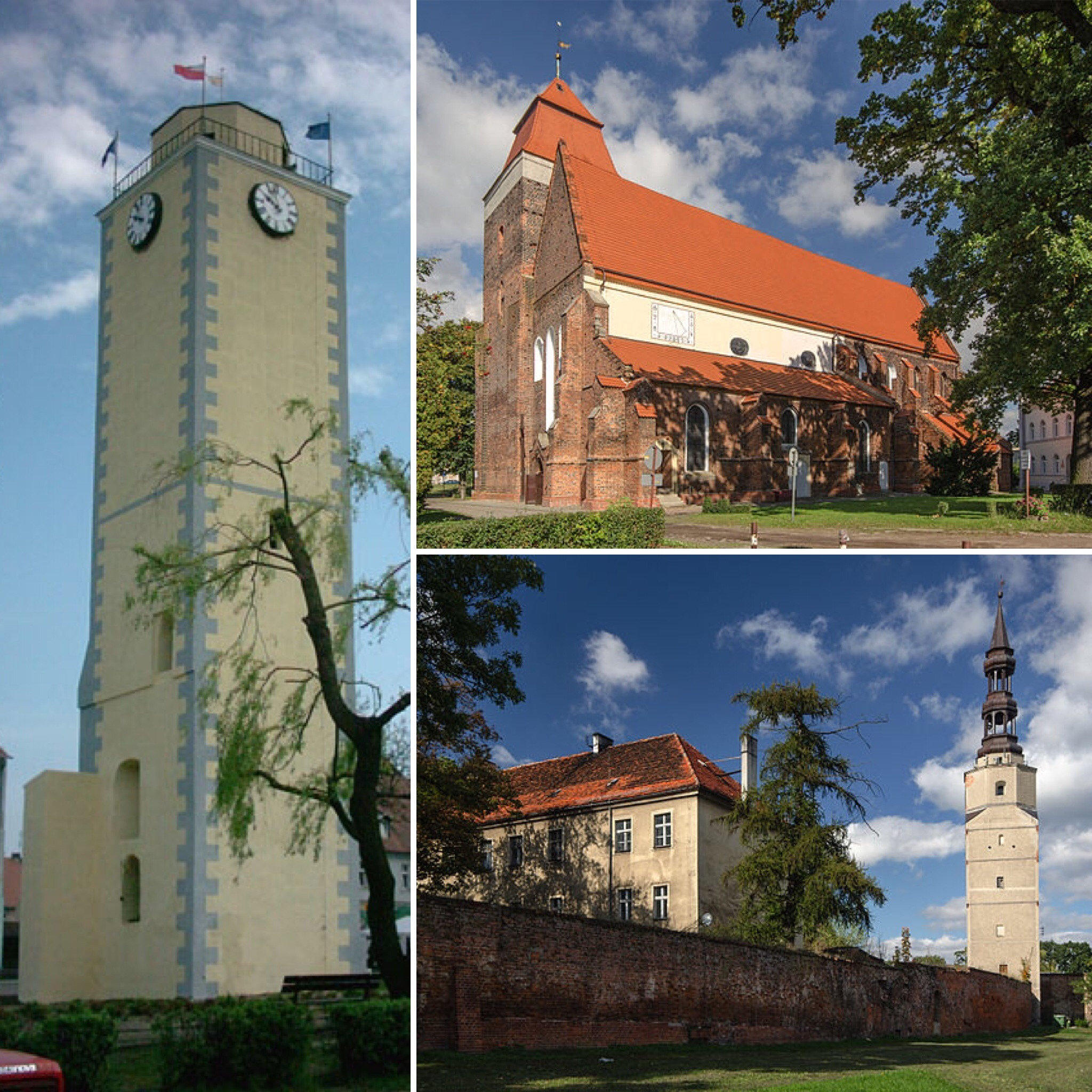 Town hall Tower, Church of St. Catherine, Castle